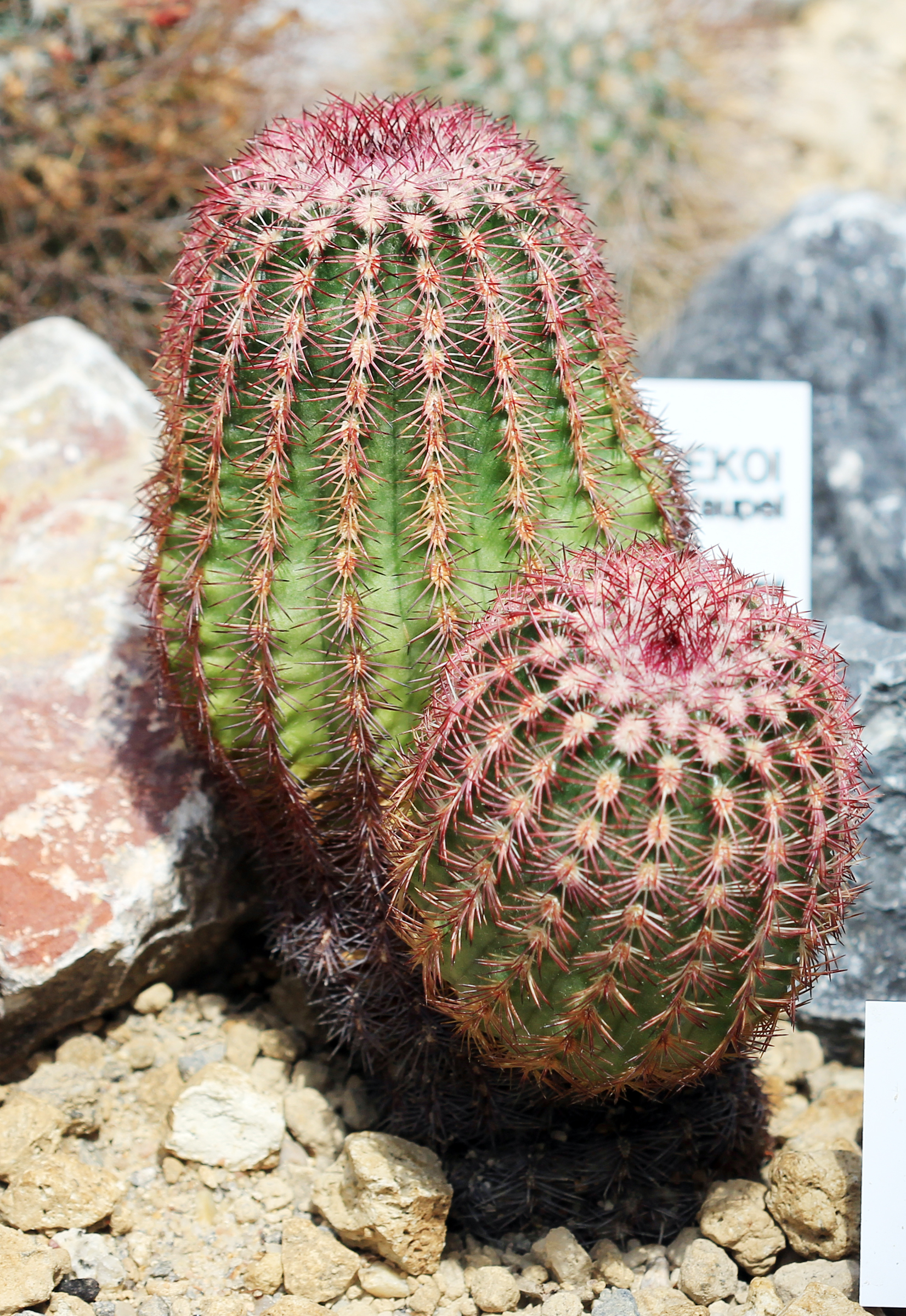 Cactus Echinocereus rigidissimus, The Botanical Gardens of Charles University, Prague, Czech republic